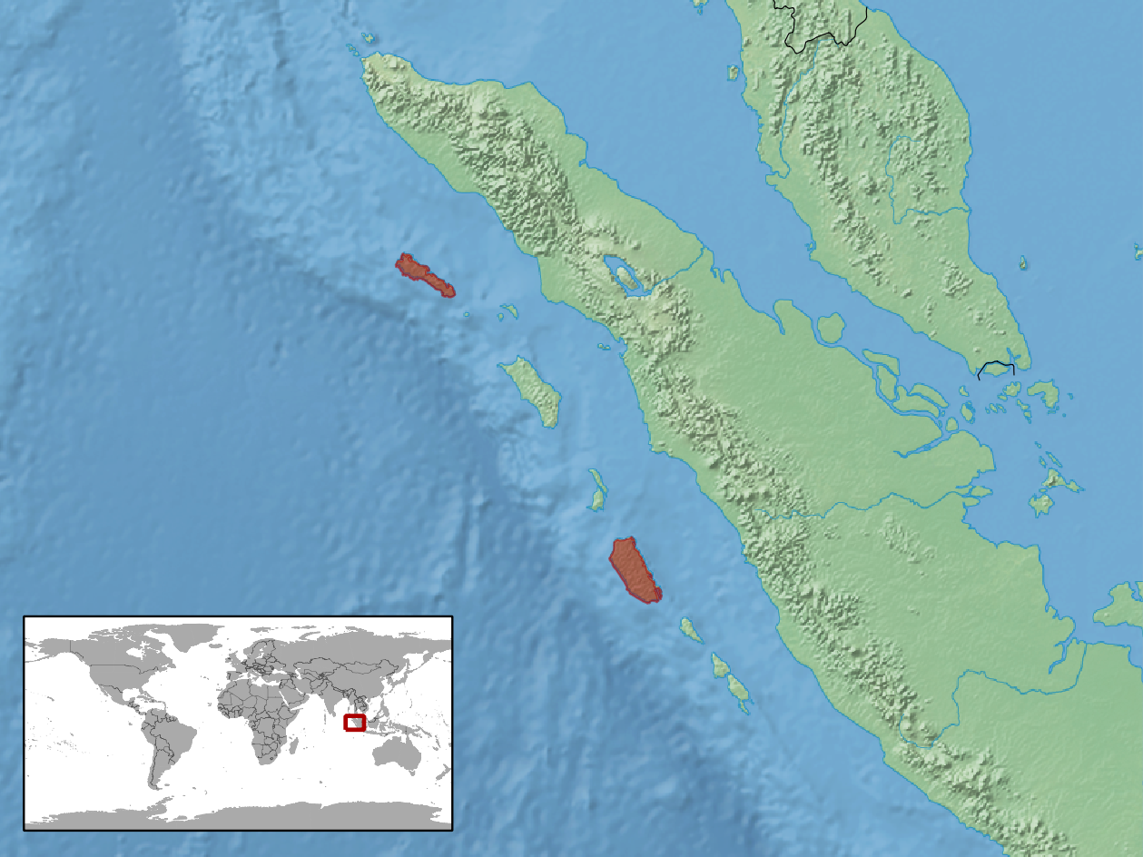 geographic distribution of Trimeresurus brongersmai (Native: Indonesia (Sumatera))